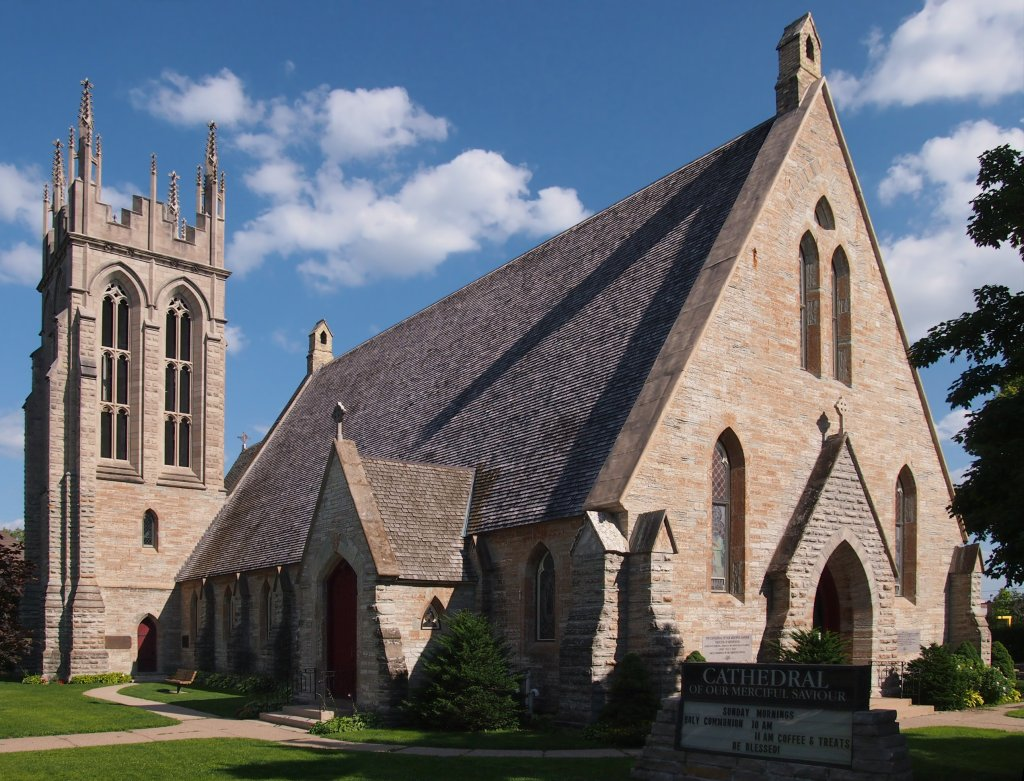 Cathedral of Our Merciful Saviour, Faribault, Minnesota, USA. Photo taken from the northwest standing on a stepstool, corrected for tilt distortion.